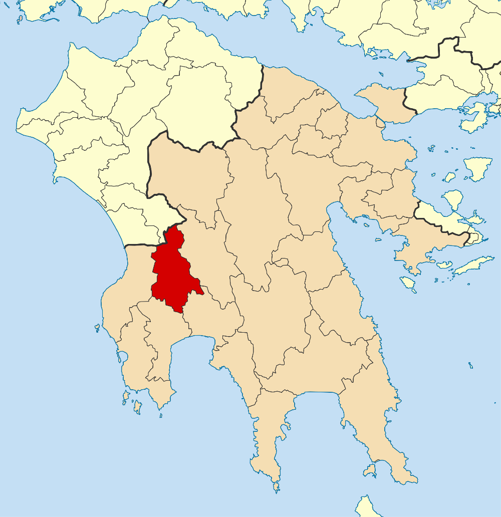 Locator map for Ichalia municipality in Greek region Peloponnese (2011)